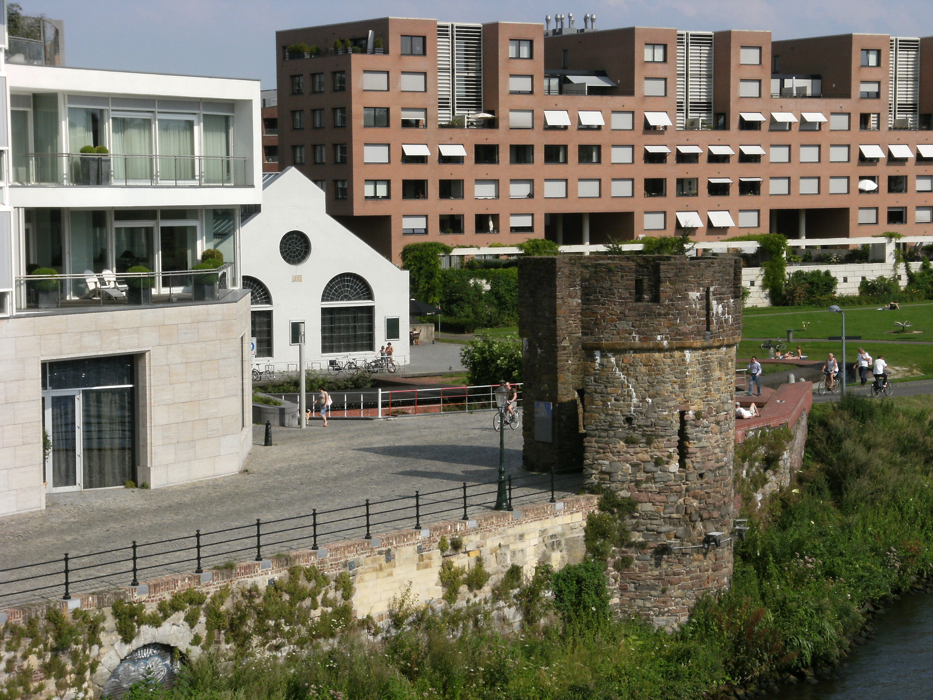 Ceramique borough in Maastricht, as seen from Hoge Brug. In centre are the Maaspunttoren and the Bordenhal